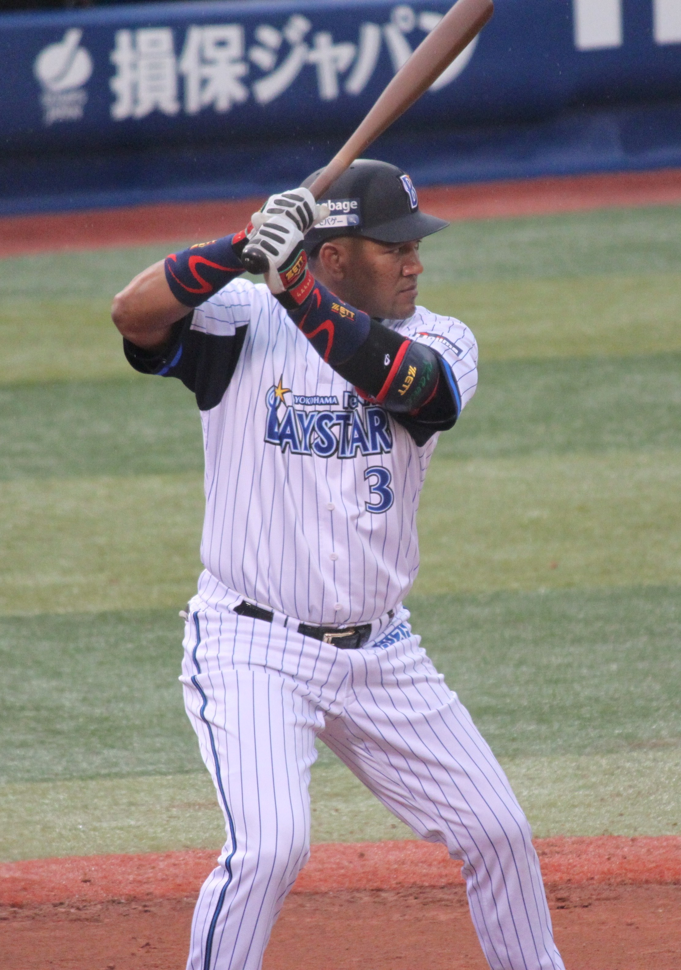 Alex Ramírez, outfielder of the Yokohama DeNA BayStars, at Yokohama Stadium.